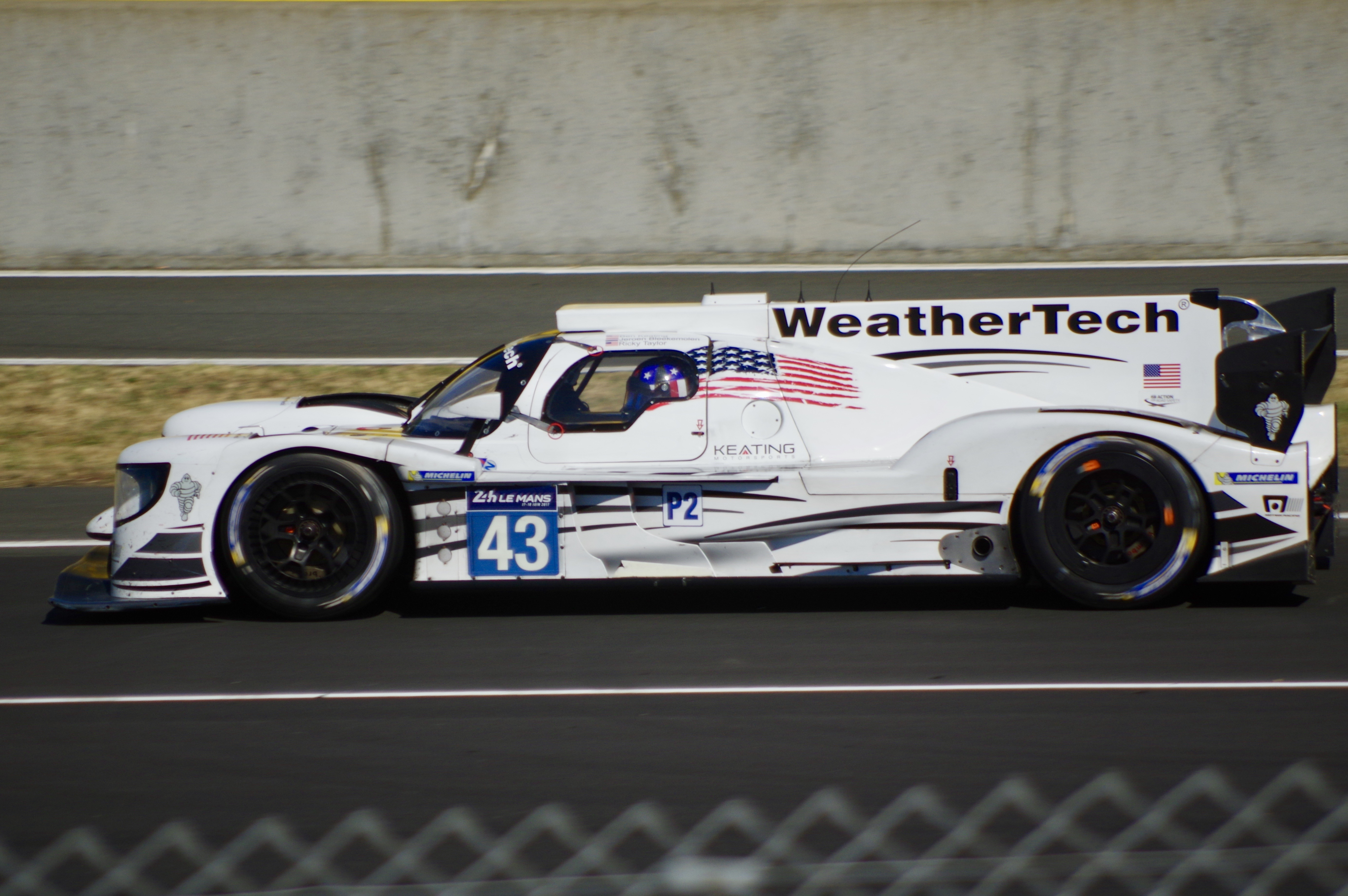 Keating Motorsport's Riley Mk 30 Gibson Driven by Ben Keating, Ricky Taylor and Jeroen Bleekemolen